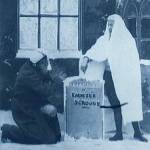 Screencap from 'Scrooge, or Marley's Ghost' (1901)